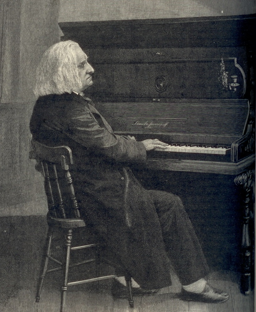 Liszt at piano, based on an old photograph.